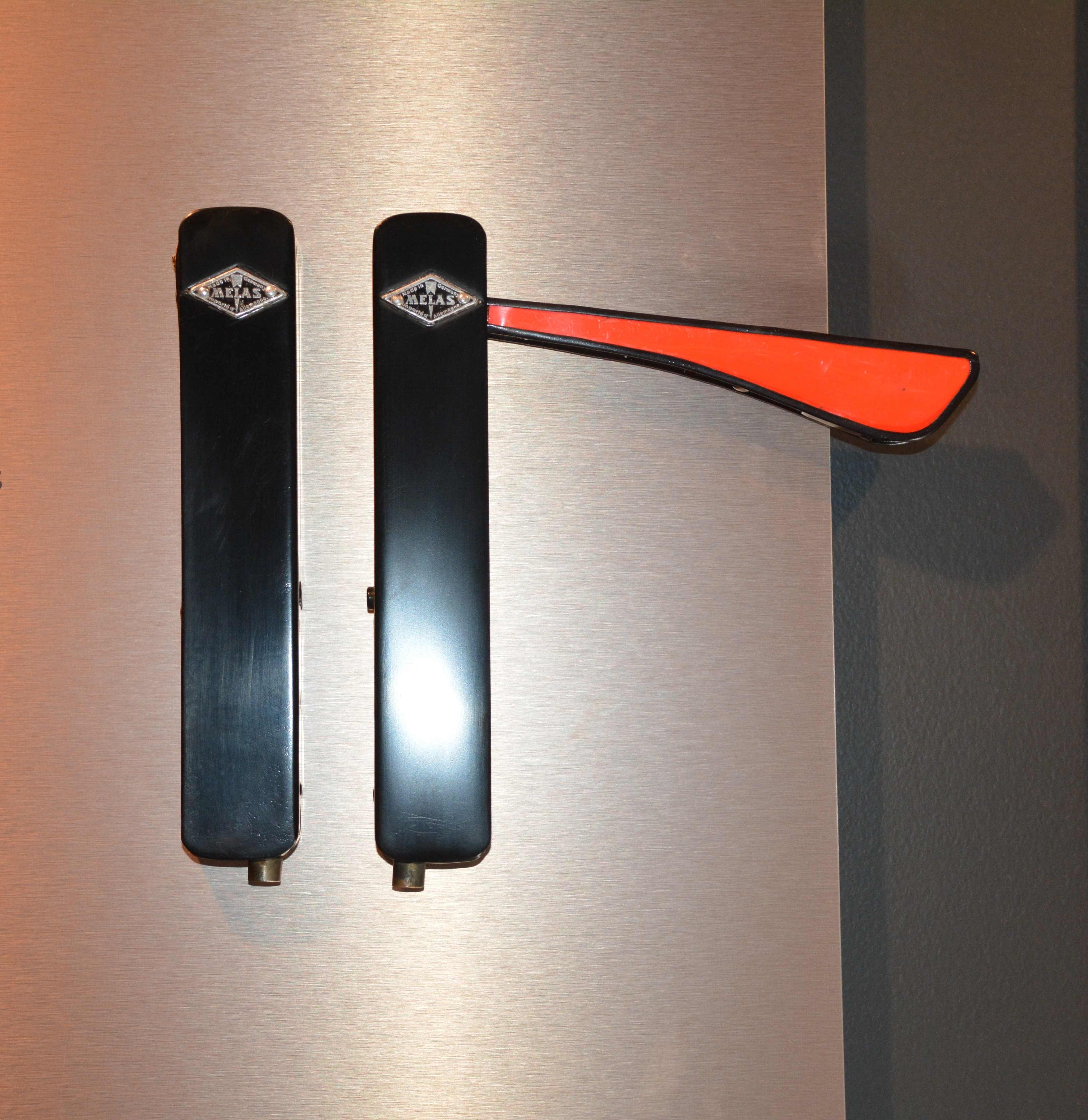 Turn signal